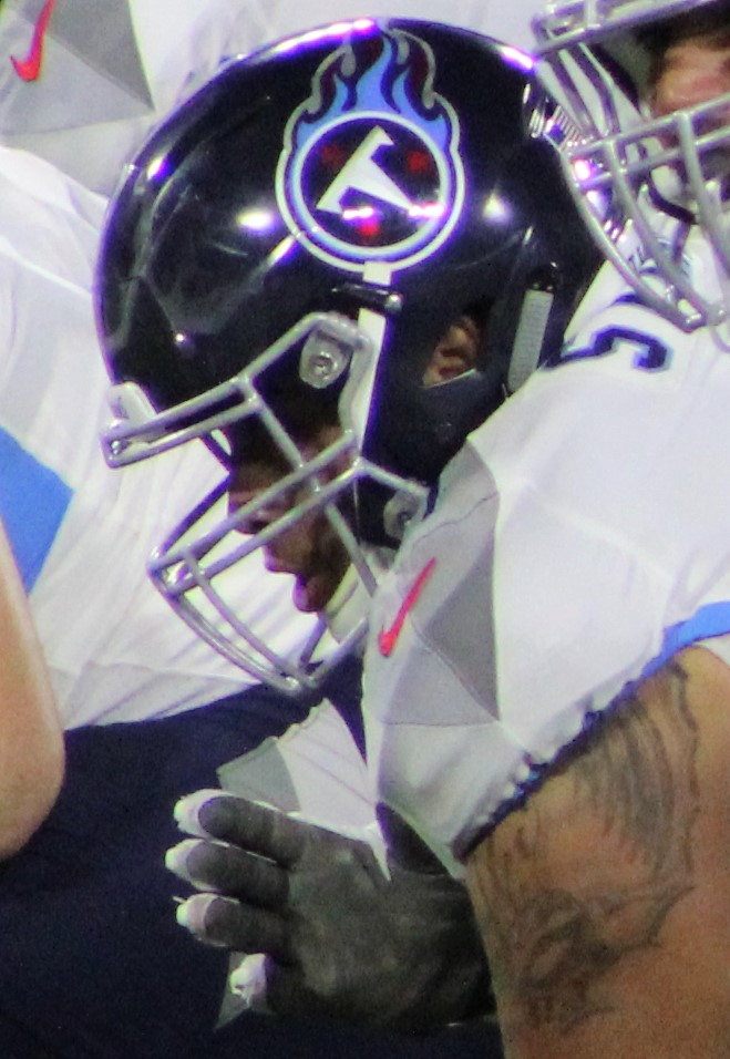 Aaron Stinnie, Tennessee Titans at Green Bay Packers (Preseason), August 9, 2018